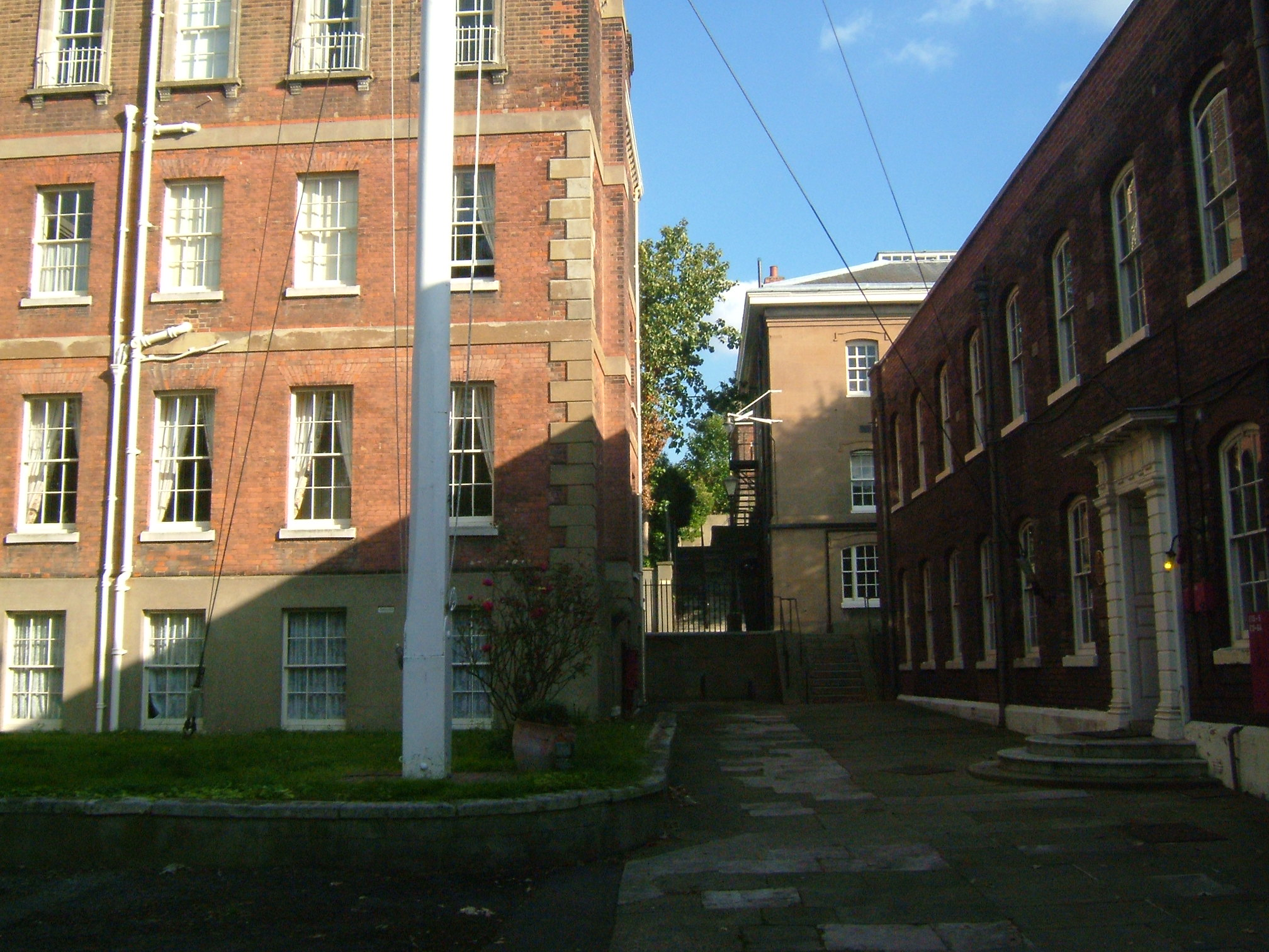 Chatham Dockyard, Kent,England has the finest collection of 18th and 19th century naval dockyard buildings many of which are scheduled as ancient monuments. Captain of the Dockyards House (Nineteenth Century) To the right Cashiers Office (Eighteenth Century). John Dickens (father to Charles) worked here from1817-1822.